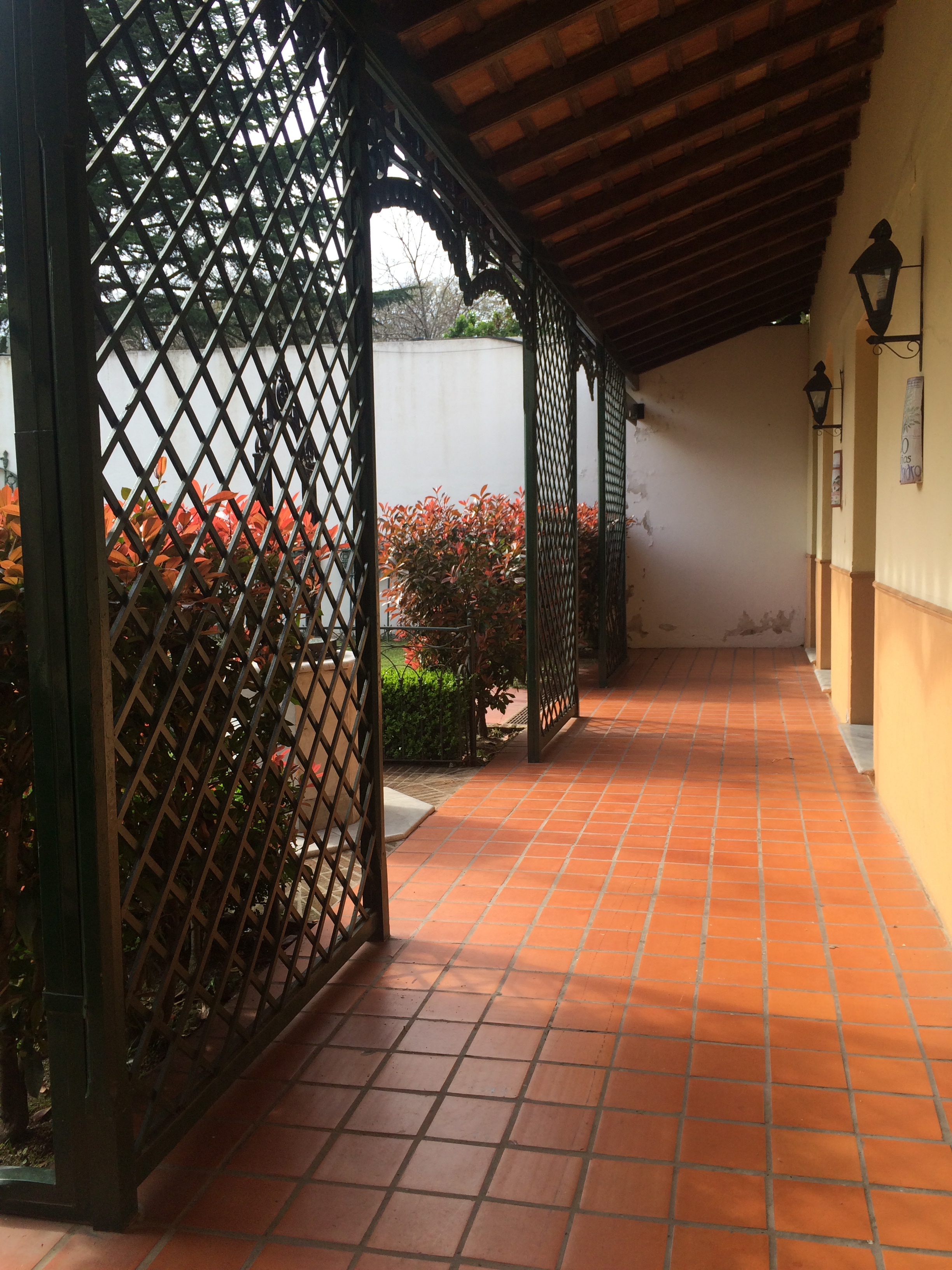 Ituzaingo 557